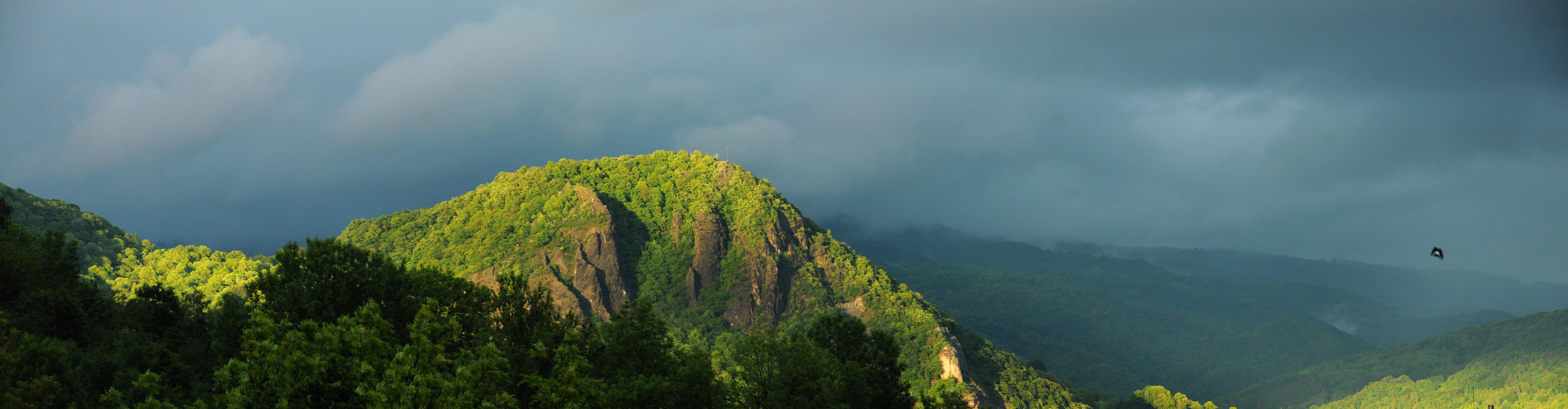 Nature reserve Kozí vrch (Goat hill) near Povrly in Ústí nad Labem District, Czech Republic